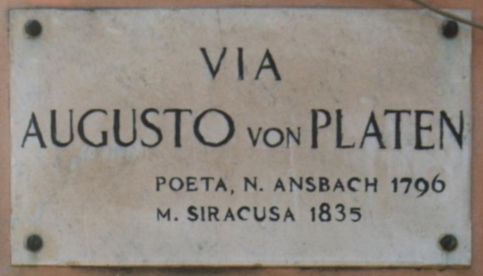 Street plaque of the street "August von Platen" in Syracuse, the Italian town where he died and his body is buried.